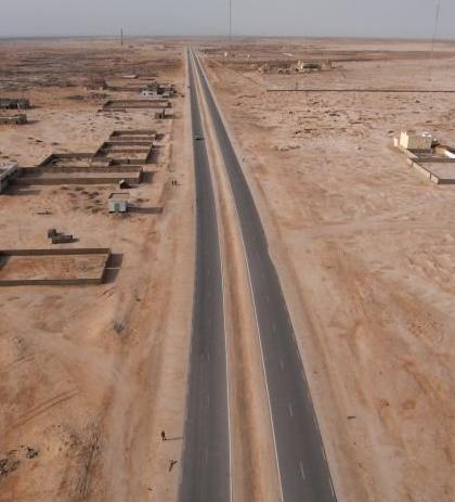 nkc-ndb road